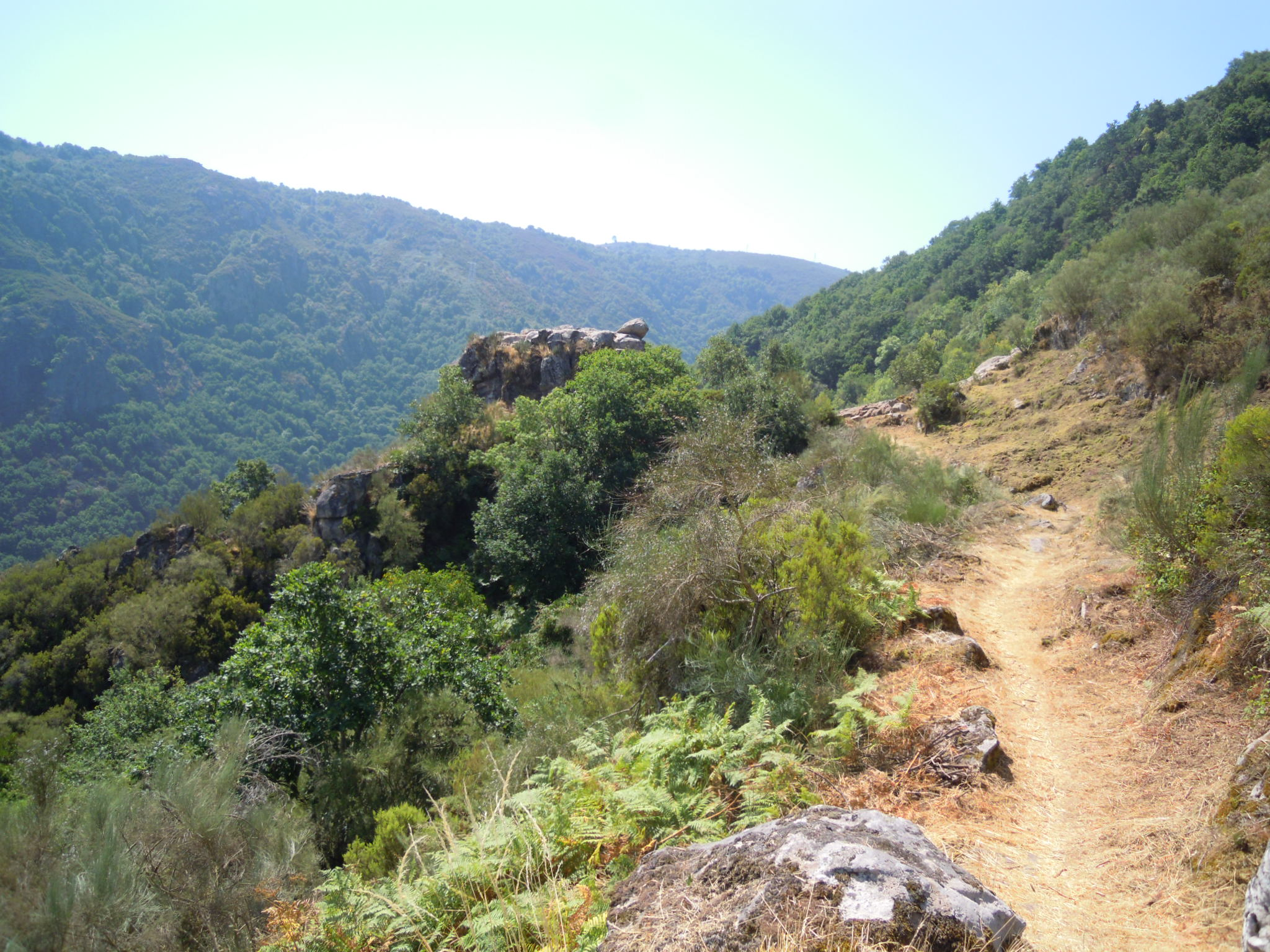 Place in San Lorenzo de Barxacova (Parada de Sil, Galicia, Spain) where is sited the San Victor de Barxacova chapel and necropolis, in excavation process.